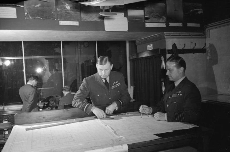 Royal Air Force 1939-1945- Coastal Command Air Vice-Marshal Geoffrey Bromet, AOC No 19 Group, and his SASO (Senior Air Staff Officer), Group Captain H Brackley, review U-boat positions in the new underground Area Combined Operations HQ at Mount Wise, Plymouth, August 1942. Prints taken during successful attacks on U-boats are pinned to the wall above.